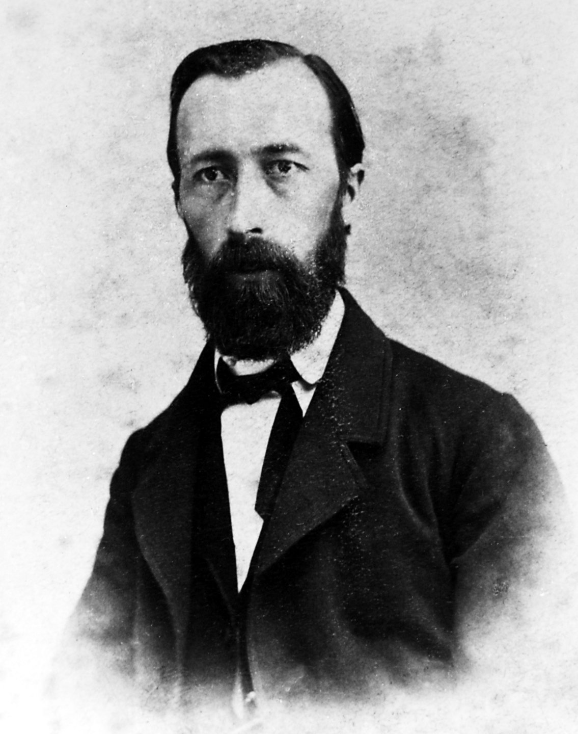 Friedrich Belthle, (* 27. February 1829 in Bebenhausen; † 9. May 1869 in Wetzlar) German microscope builder